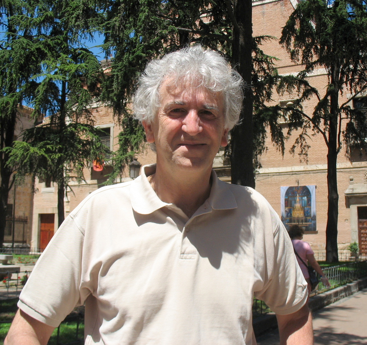 Juan Luis Arsuaga Ferreras (1954). Spanish paleoanthropologist. Photo taken in May 2014.